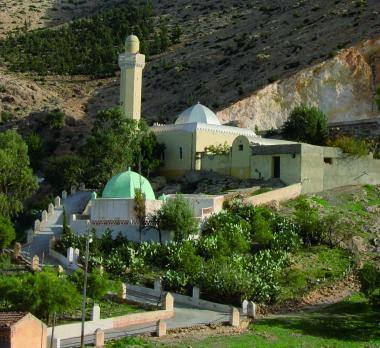 مسجد قلعة بني راشد